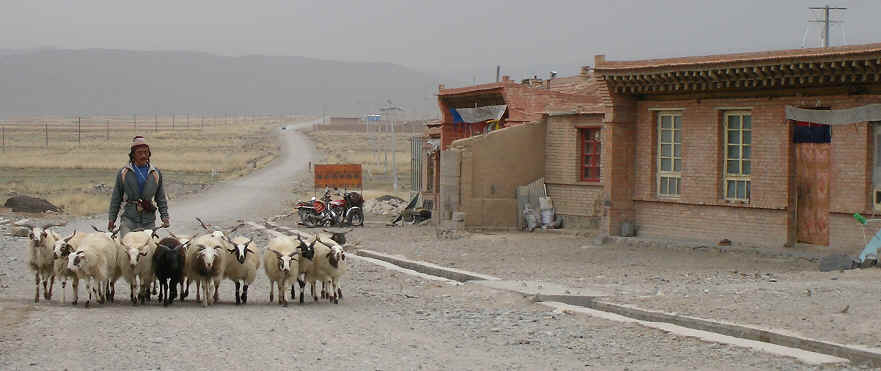 near Sangke, Gansu Province, China